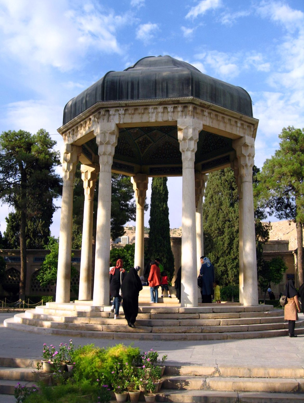 Tomb of Hafez, Shiraz, Iran.